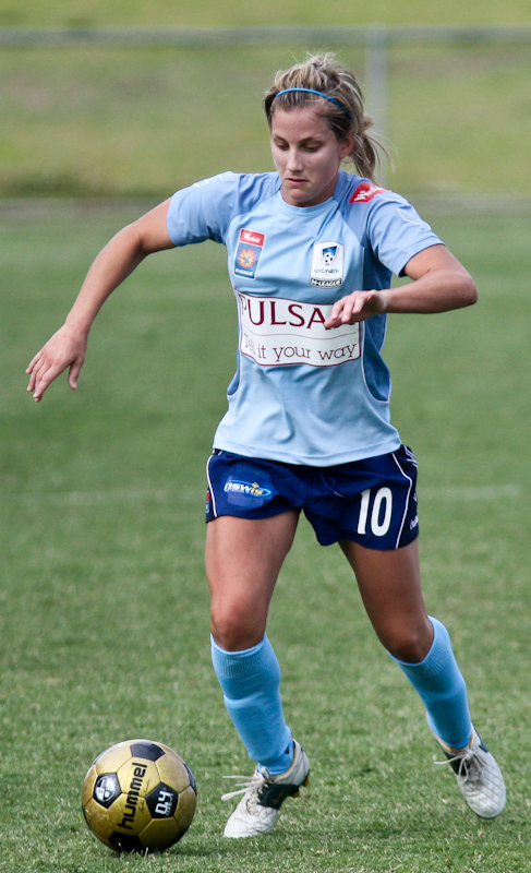 Kylie Ledbrook playing for Sydney FC in the W-League against the Newcastle Jets.